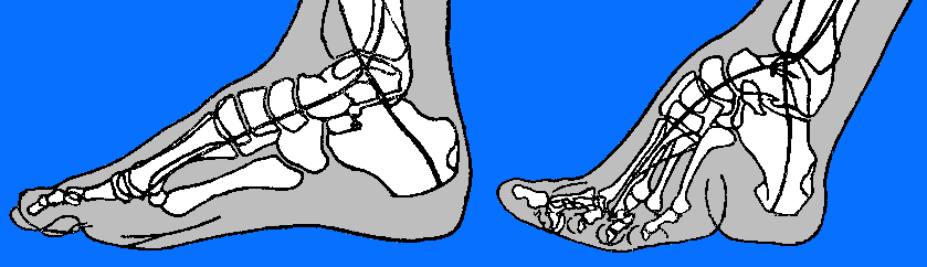 Rx schema of normal and bind foot (China footbinding)